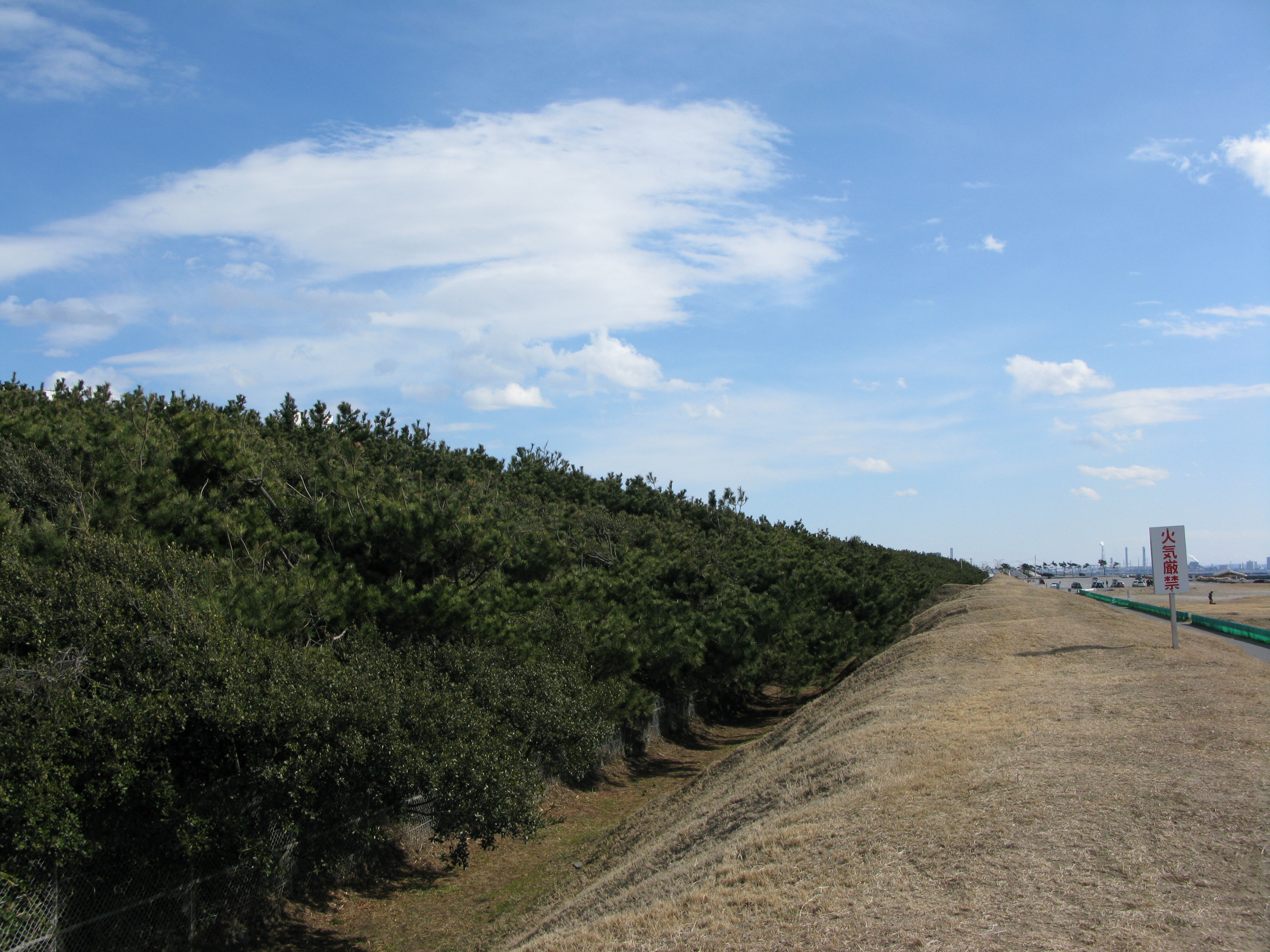 Dyke and forest protect new towns in Makuhari (Chiba, Japan) from Tsunami